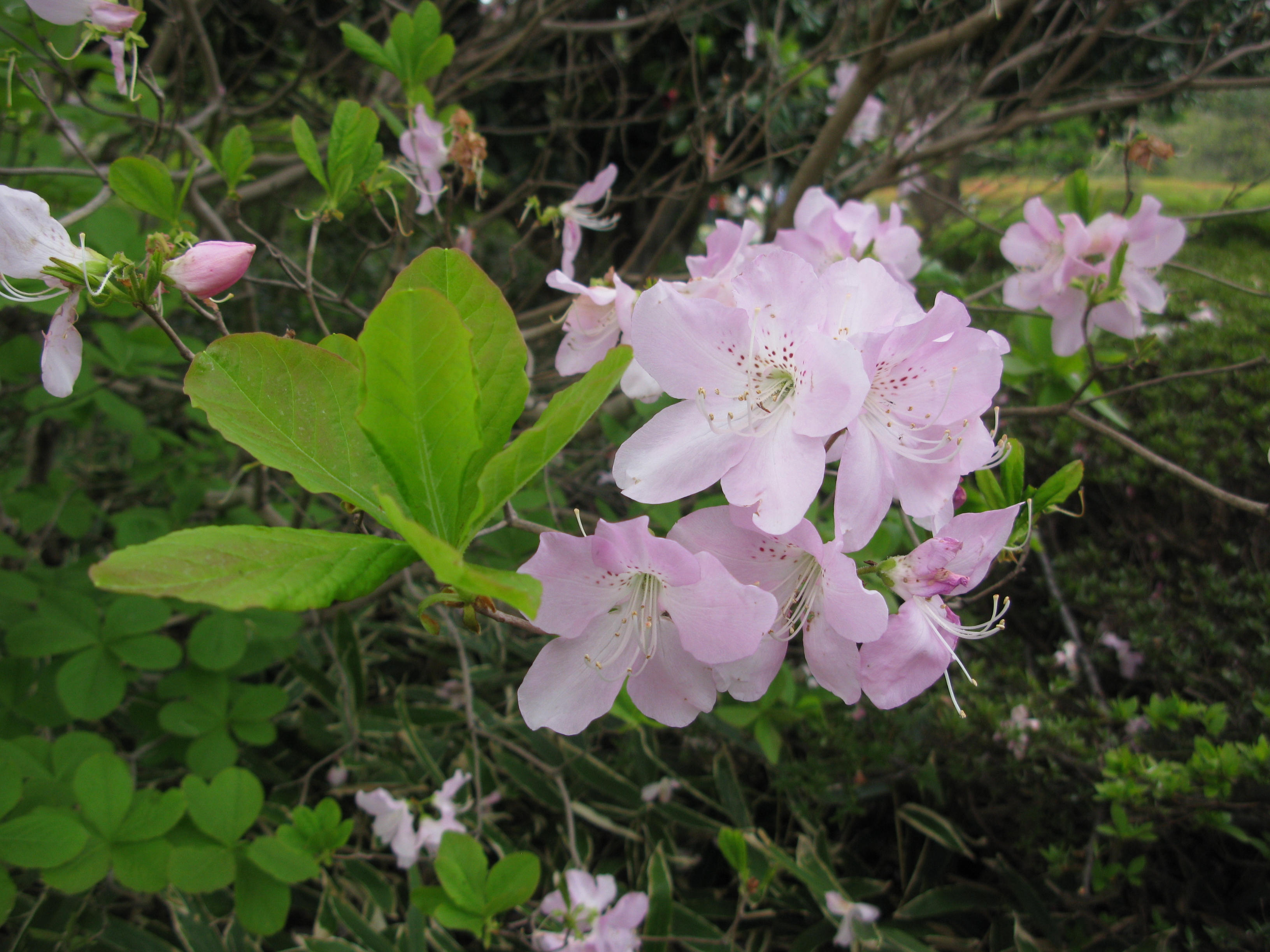 Rhododendron schlippenbachii, Jindai Botanical Garden, Tokyo, Japan